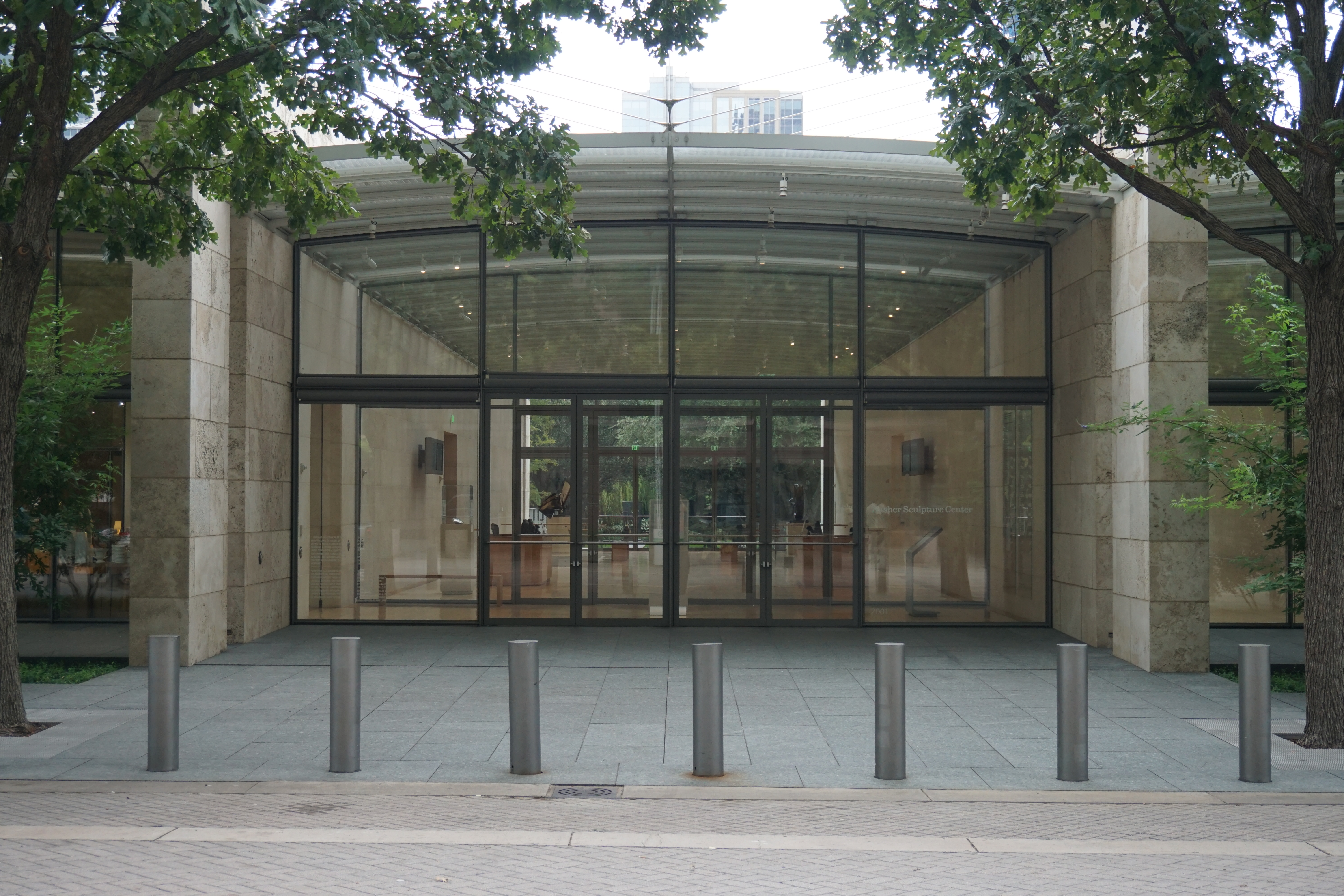 The exterior of the Nasher Sculpture Center in Dallas, Texas (United States).